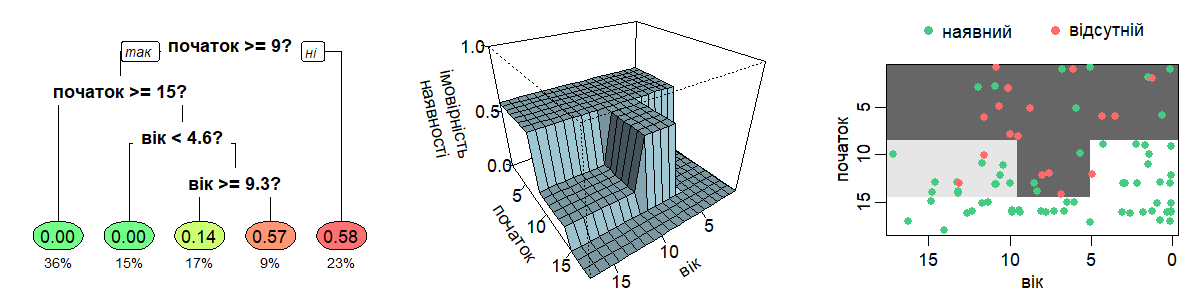 Three different representations of a classification tree of kyphosis data, labelled in Ukrainian